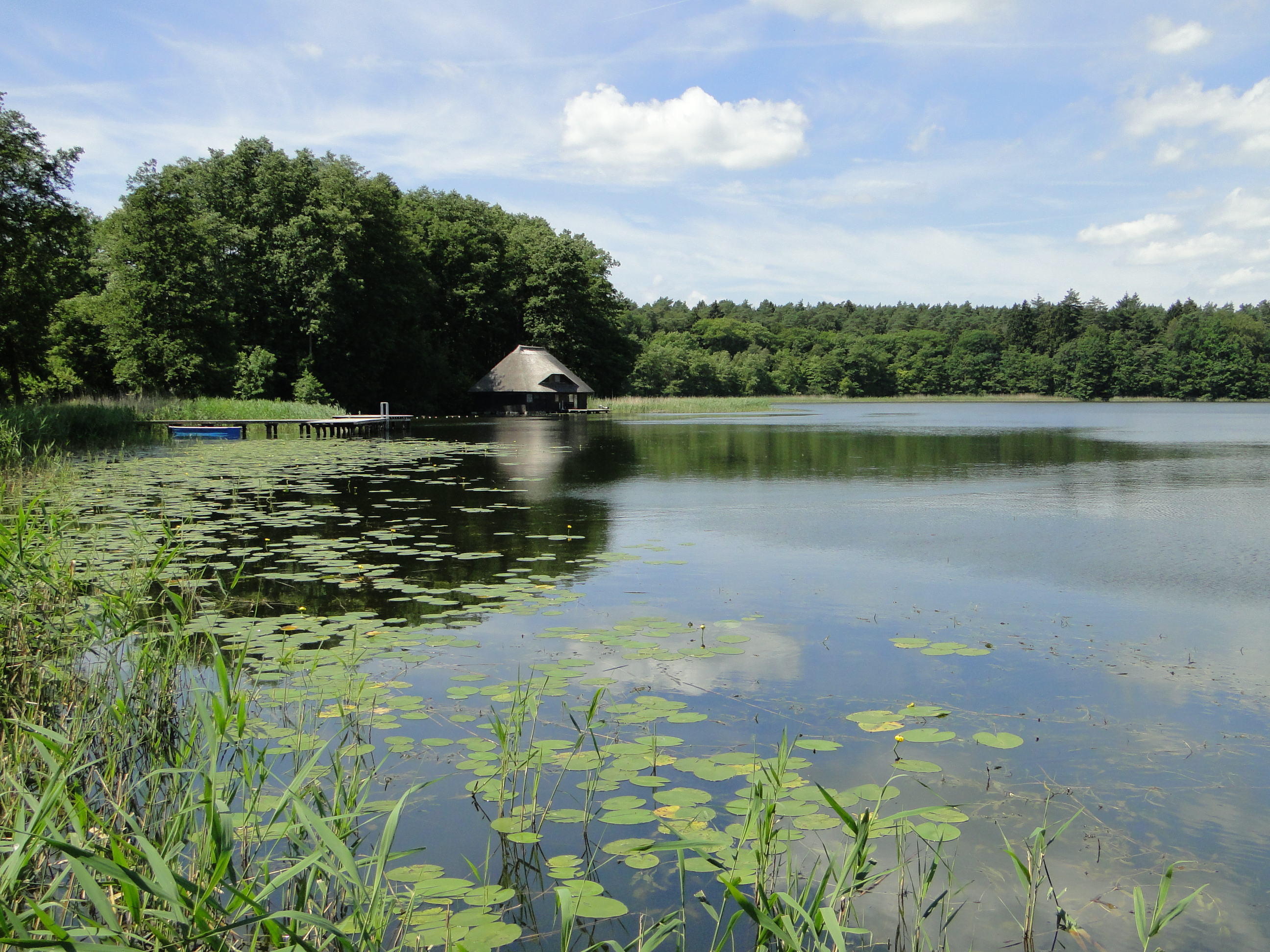 Lake Langsee in Neu Sammit, district Güstrow, Mecklenburg-Vorpommern, Germany